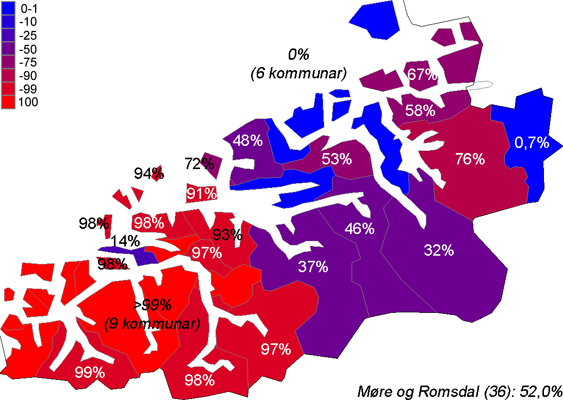 Nynorsk in Møre og Romsdal 2011